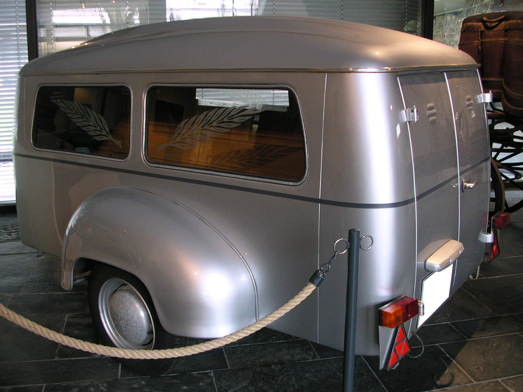 Westfalia hearse trailer